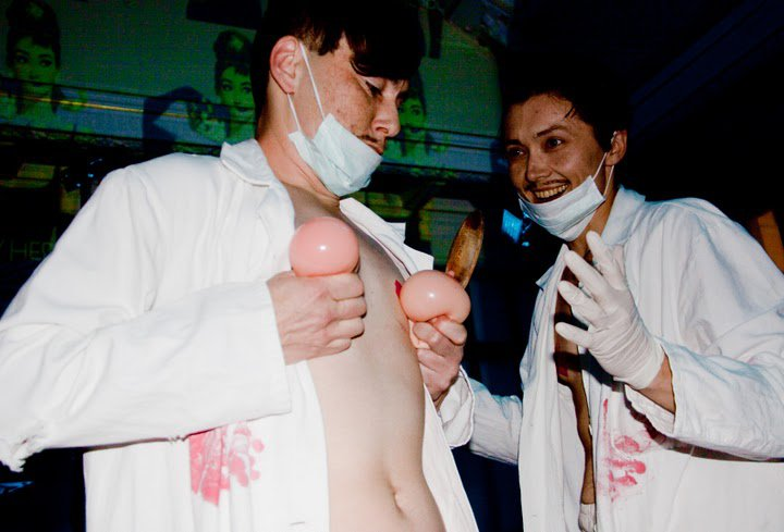 Drag Addicts, Virtual Therapy en plein air theatre performace during Meziploty Festival